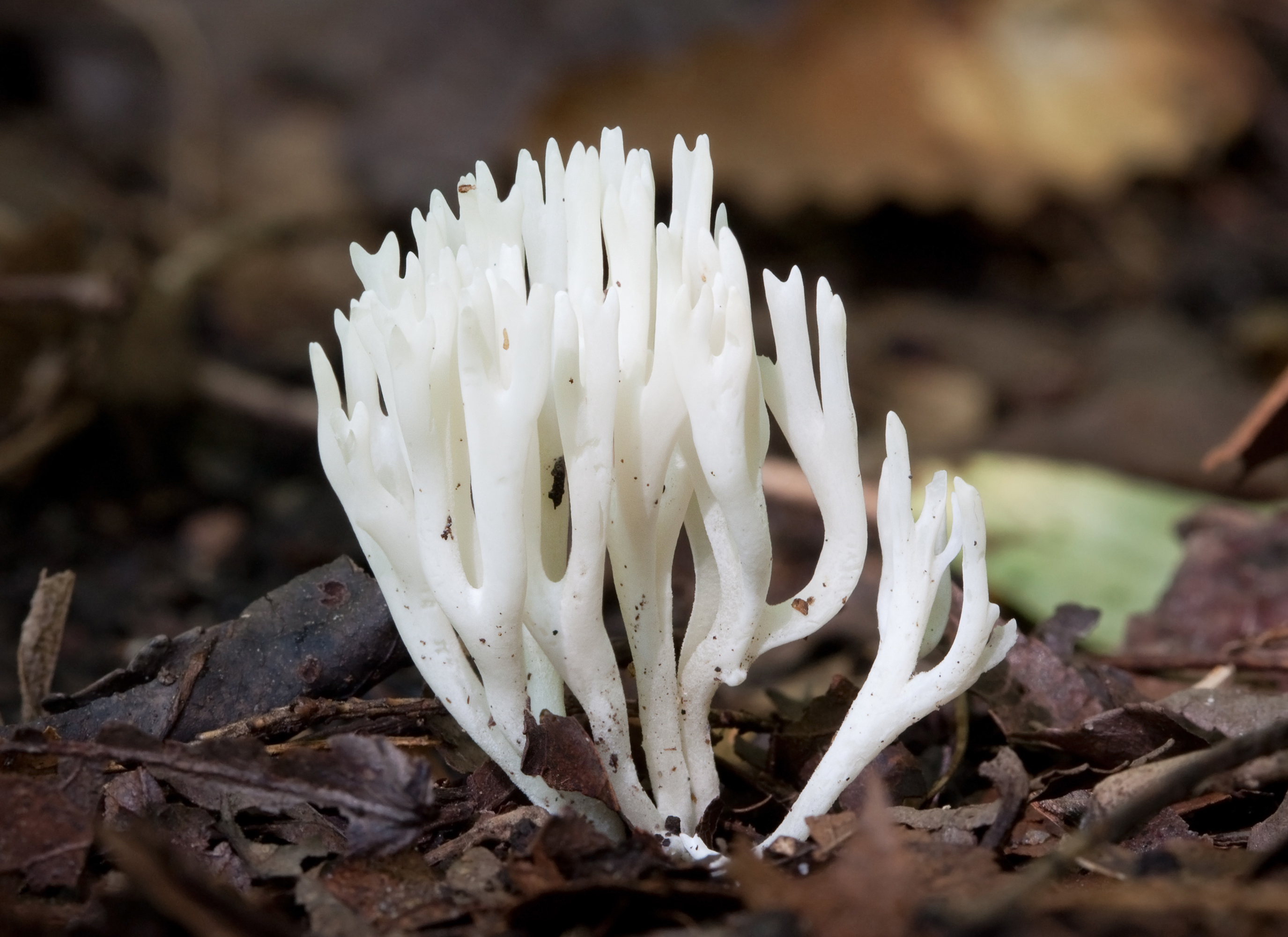 White coral fungi (Ramariopsis kunzei) at Great Smoky Mountains National Park. Focus stacked from two images.